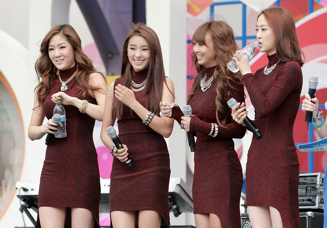 2012.06.09 서울 양천구 파리공원 육우데이 SBS파워FM 특집공개방송 " 박영진 박지선의 명랑특급" 씨스타 _ 나혼자 , so cool